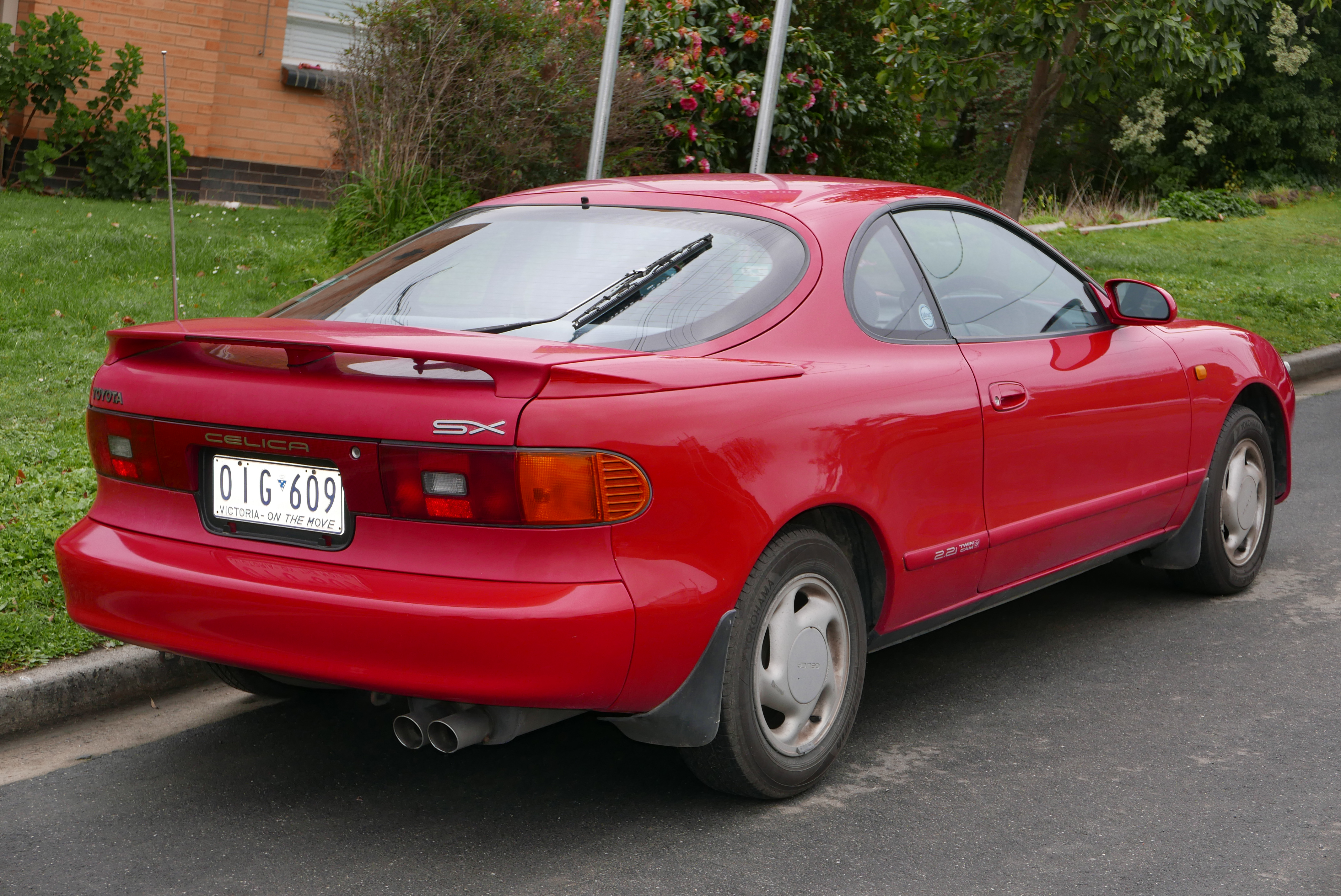 1990 Toyota Celica (ST184R) SX liftback. Photographed in Doncaster, Victoria, Australia. Vehicle registration enquiry results Jurisdiction Victoria Registration OIG609 Chassis code JT764STJ400075346 Engine code 5S0087106 Compliance date 1991-01 Year of manufacture 1990 (not a typo)